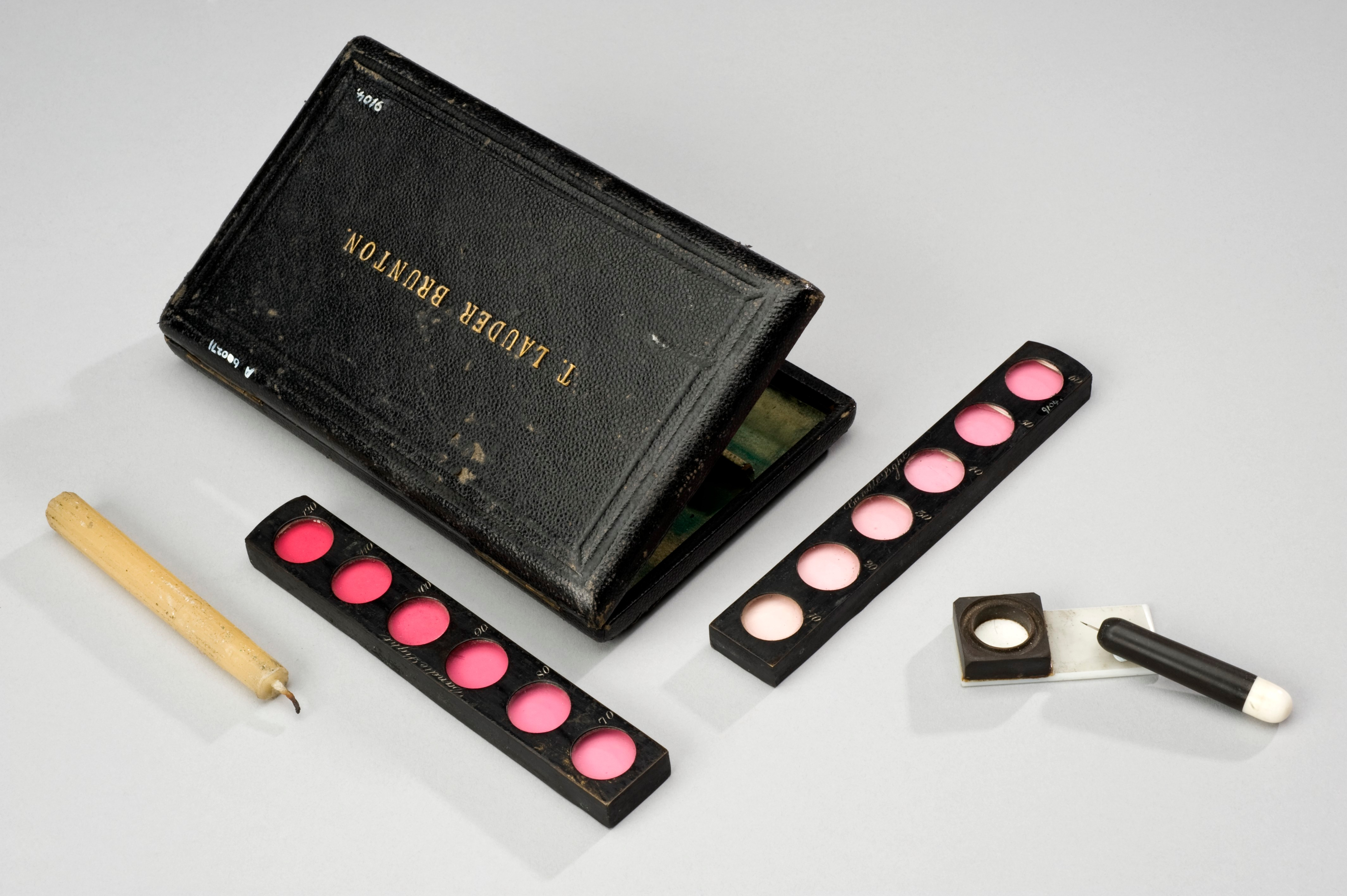 Description Haemoglobin is the chemical in the blood which carries oxygen and gives blood its red colour. A haemoglobinometer like this example assesses the amount of haemoglobin in the blood. It compares the patient’s sample to a colour chart representing various normal and depleted levels of haemoglobin. This is used to diagnose a medical condition such as anaemia, which manifests itself with a low red blood cell count or a low amount of haemoglobin. Other cells in the body can also contain haemoglobin, but this kit can only test the high levels in blood. Maker: Allen and Hanbury Limited Place made: London, Greater London, England, United Kingdom